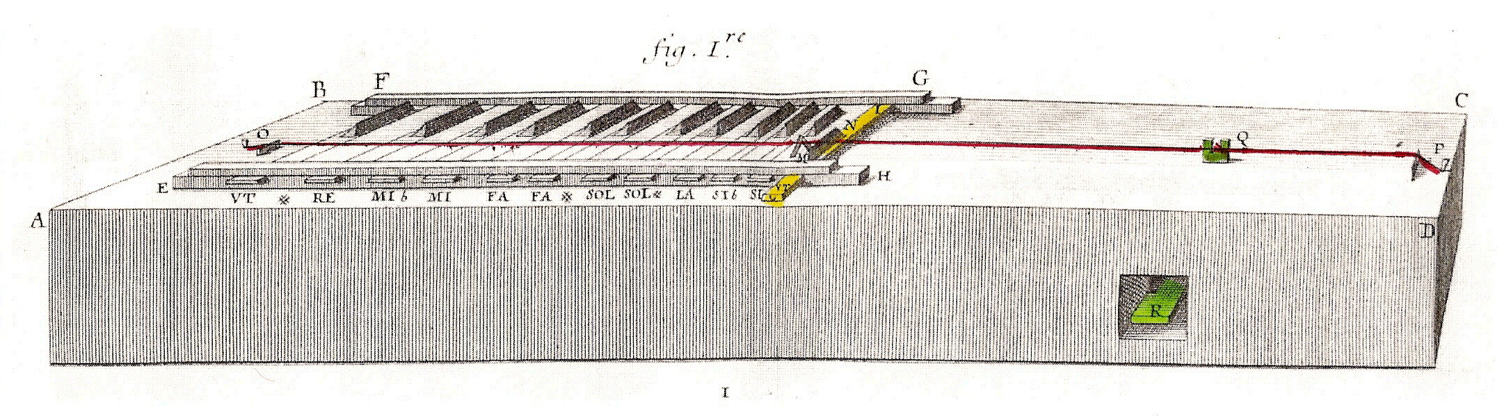 Detail from engraving of Loulié's sonomètre, 1699, Machines et inventions approuvées par l'Académie Royale des Sciences (Paris. 1735)